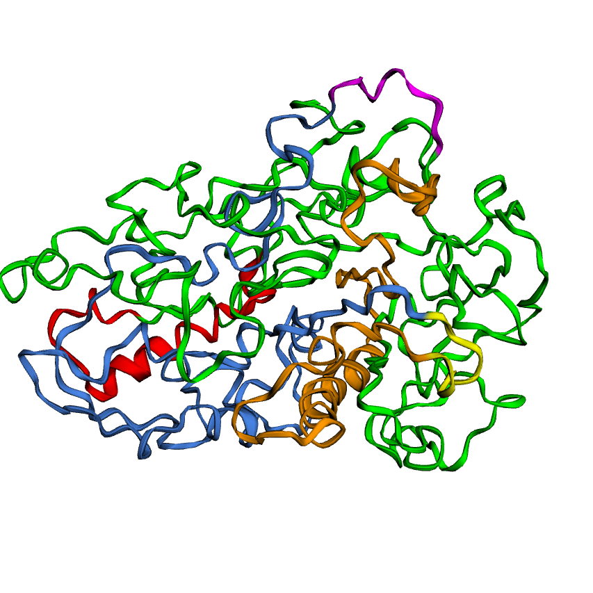 TEX55